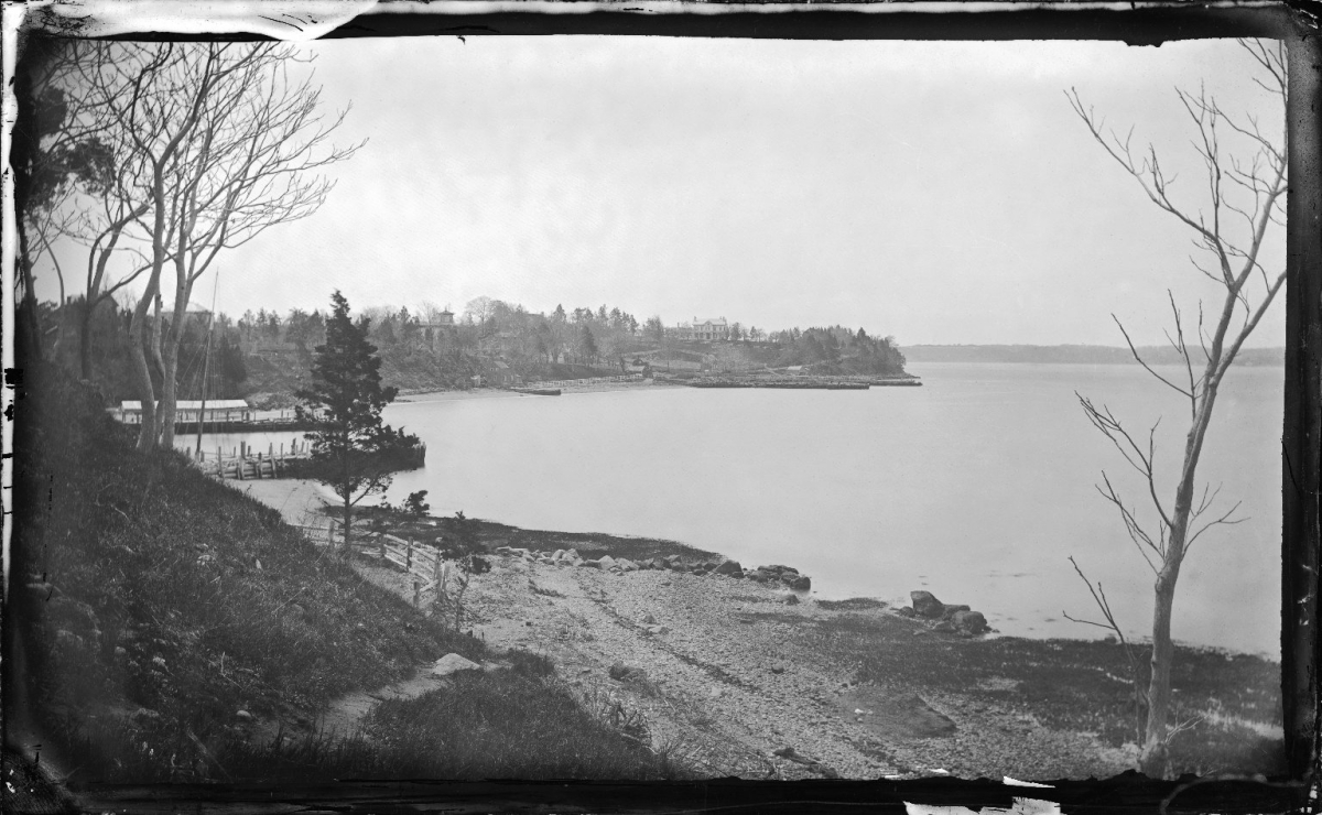 George Bradford Brainerd (American, 1845-1887). Bay Ridge, Brooklyn, ca. 1872-1887. Wet-collodion negative. Prints, Drawings and Photographs. Brooklyn Museum/Brooklyn Public Library, Brooklyn Collection, 1996.164.2-157. (1996.164.2-157_glass_IMLS_SL2.jpg) Thank you, BillRHodesPhoto! This image has been geotagged by BillRHodesPhoto so Brooklyn could be part of the Historypin launch on July 11, 2011. Want to help? See if you can place any of these images on a map! More about #mapBK